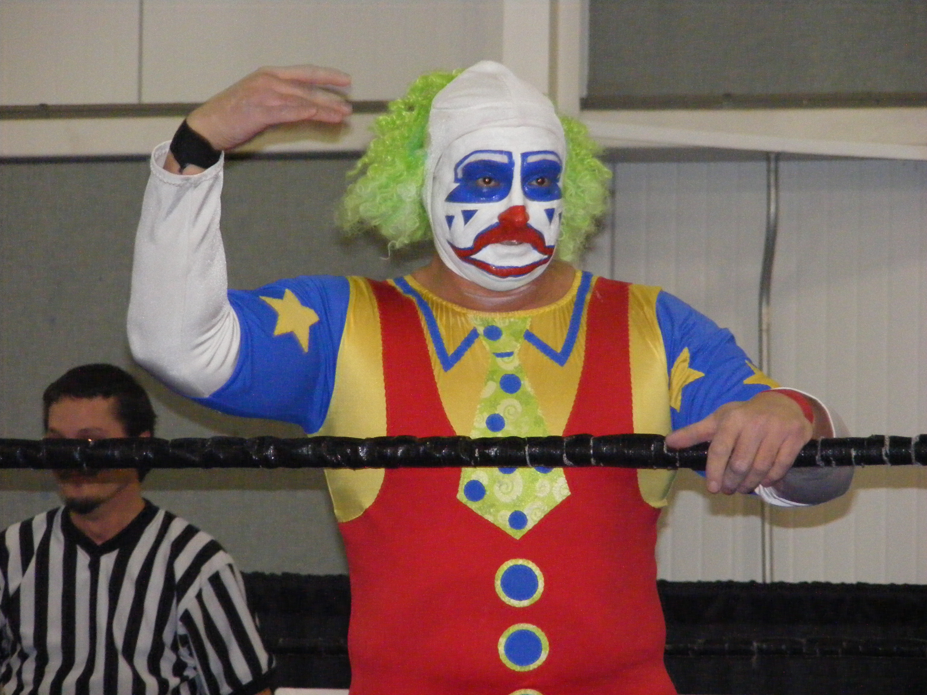 A wrestler using the "Doink the Clown" gimmick at a PWE show in York, PA in January 2009